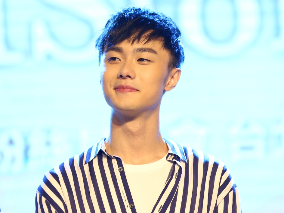 中文（台灣）: HIStory2粉絲見面會